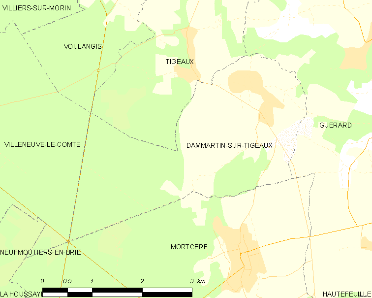 Map of French municipality Dammartin-sur-Tigeaux